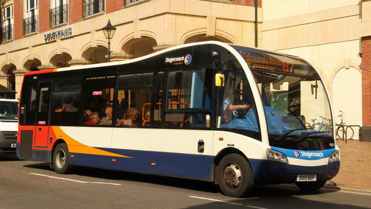 Optare Solo SR bus in Stagecoach Group livery on route B7 in Bridge Street, Banbury, Oxfordshire. Stagecoach buses in Banbury are owned by the company's Midland Red (South) subsidiary but operated by Stagecoach in Oxfordshire.